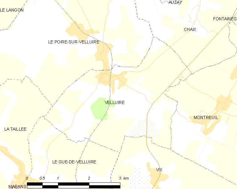 Map of French municipality Velluire